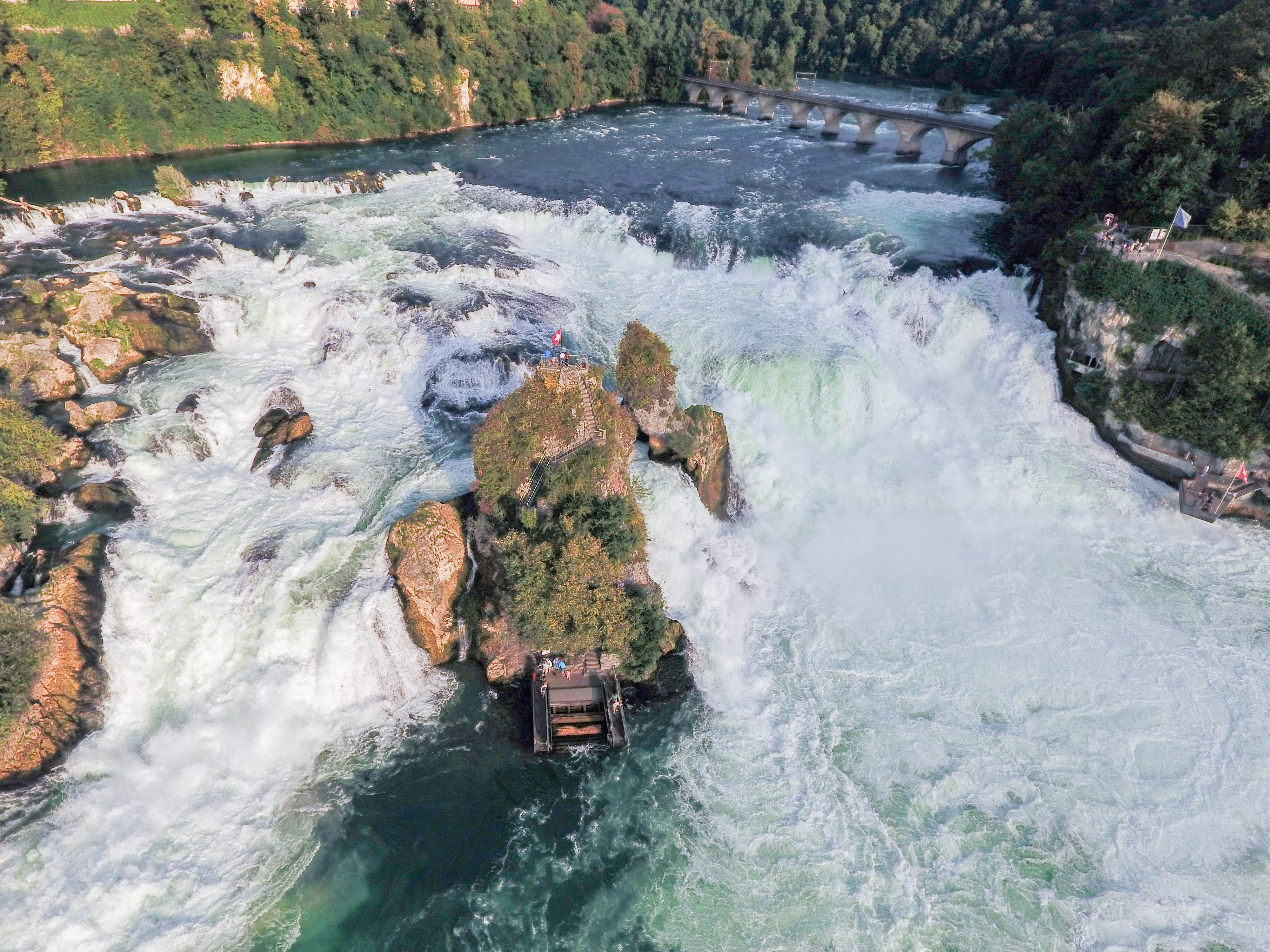 Switzerland, Canton of Schaffhausen, aerial view of the Rhine Falls just before sunset